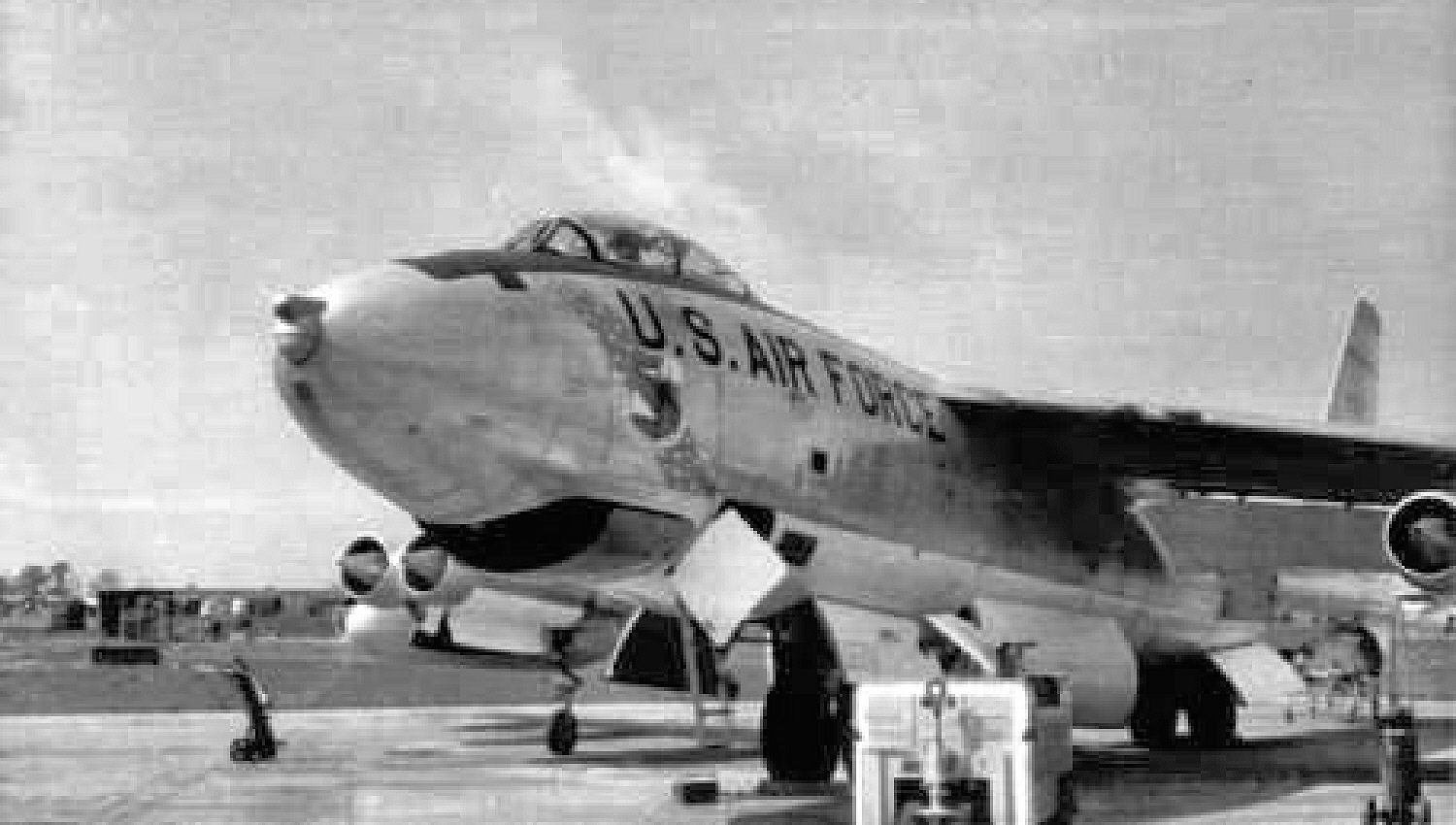 100th Bombardment Wing Boeing B-47 parked at RAF Bruntingthorpe